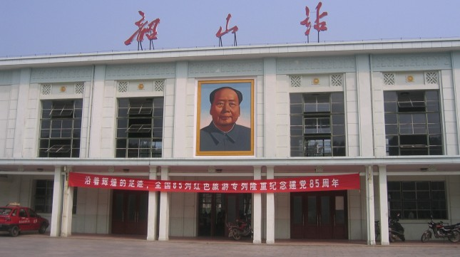 Shaoshan Railway Station - The train station in Mao Tse Tung's home village of Shaoshan. Mao's ancestral home is a mecca for the former chairman. Canadian author Troy Parfitt traveled extensively in China to get source material for his book Why China Will Never Rule the World.